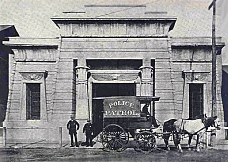 New Orleans: Police Patrol wagon in front of the Egyptian Revival 4th District Station, Rousseau Street, Uptown, c. late 1890s.